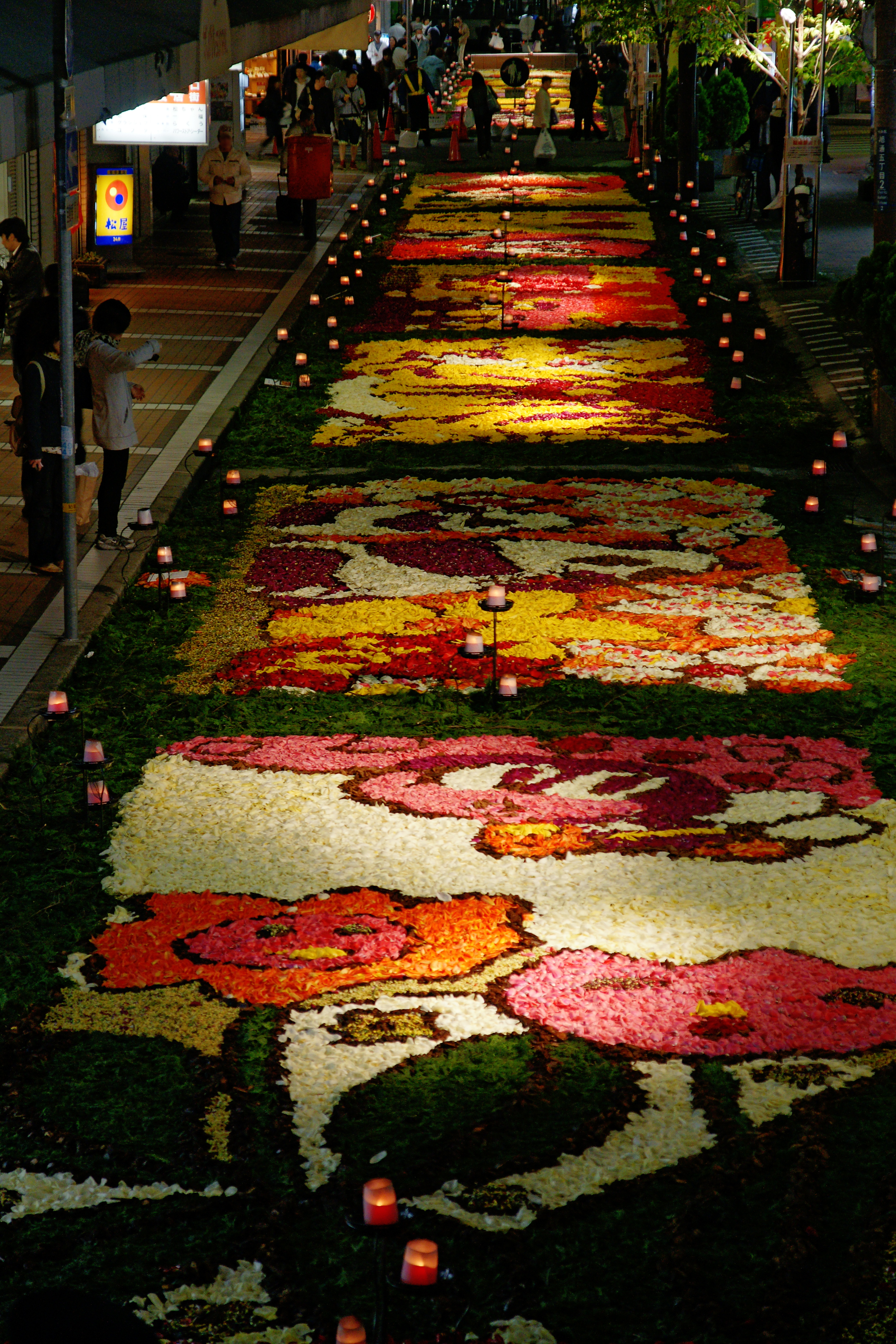 Infiorata Kobe 2006 at Sannomiya, Kobe, Hyogo prefecture, Japan